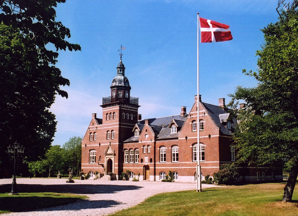 The estate of Gårdbogård in Nordjylland, Denmark.